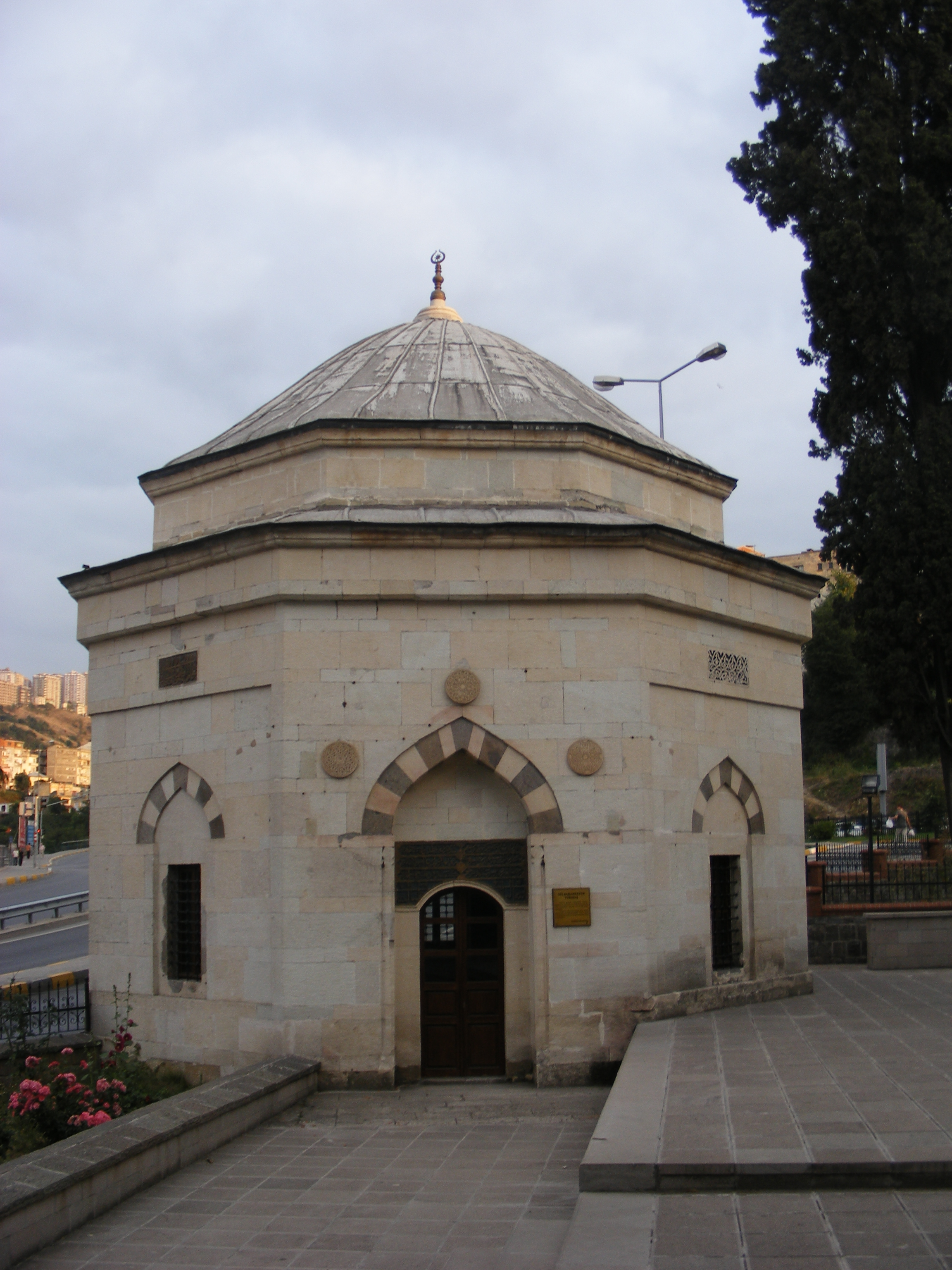 Gülbahar Hatun mausoleum in Trabzon